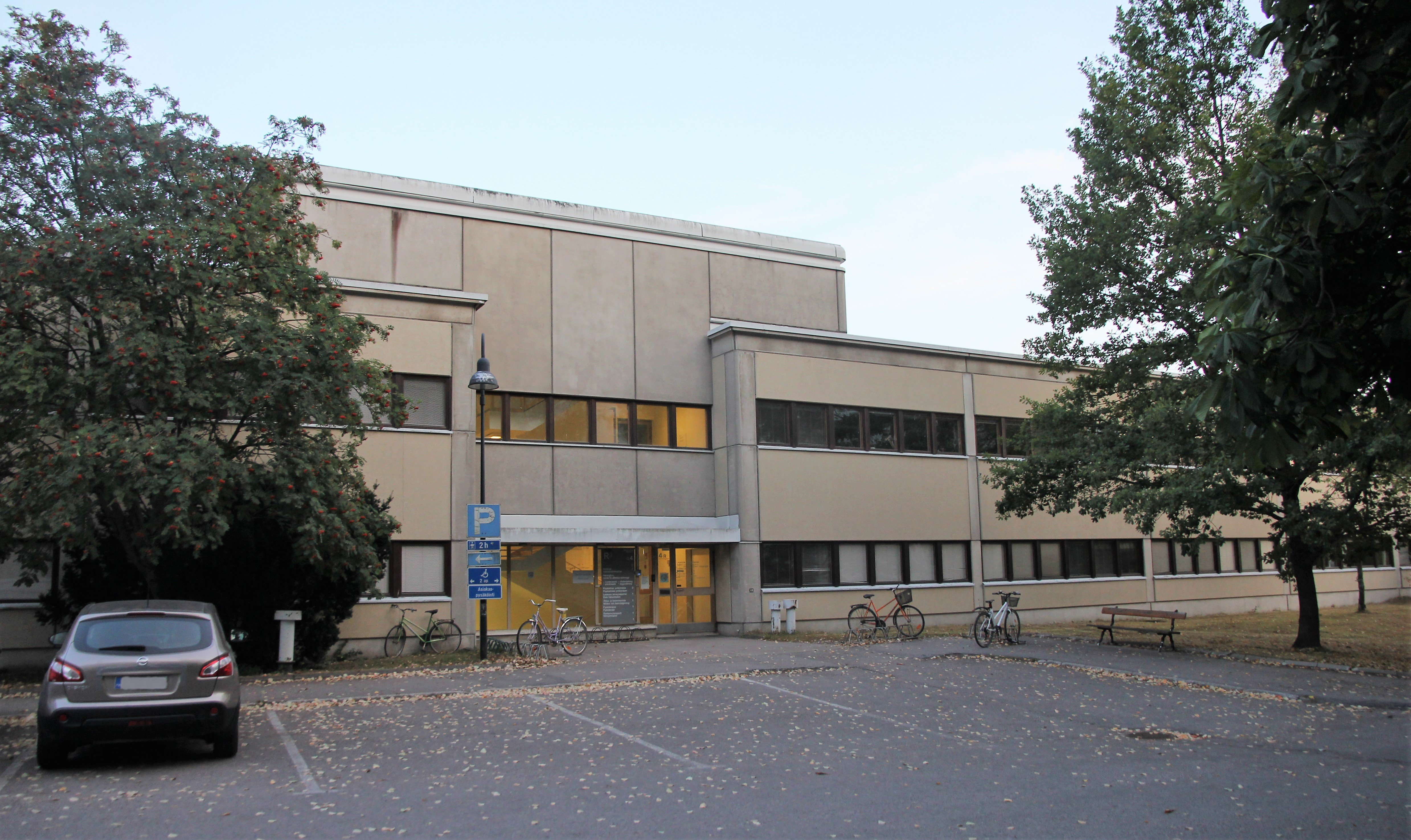 Laakso Health Station. Address: Lääkärinkatu 8 R, 00250 Helsinki, Finland. Part of Laakso Hospital, building 4, door R, located in Laakso, Helsinki.